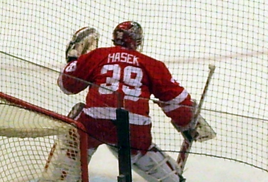 Before a game between the Detroit Red Wings and the Los Angeles Kings at Joe Louis Arena.